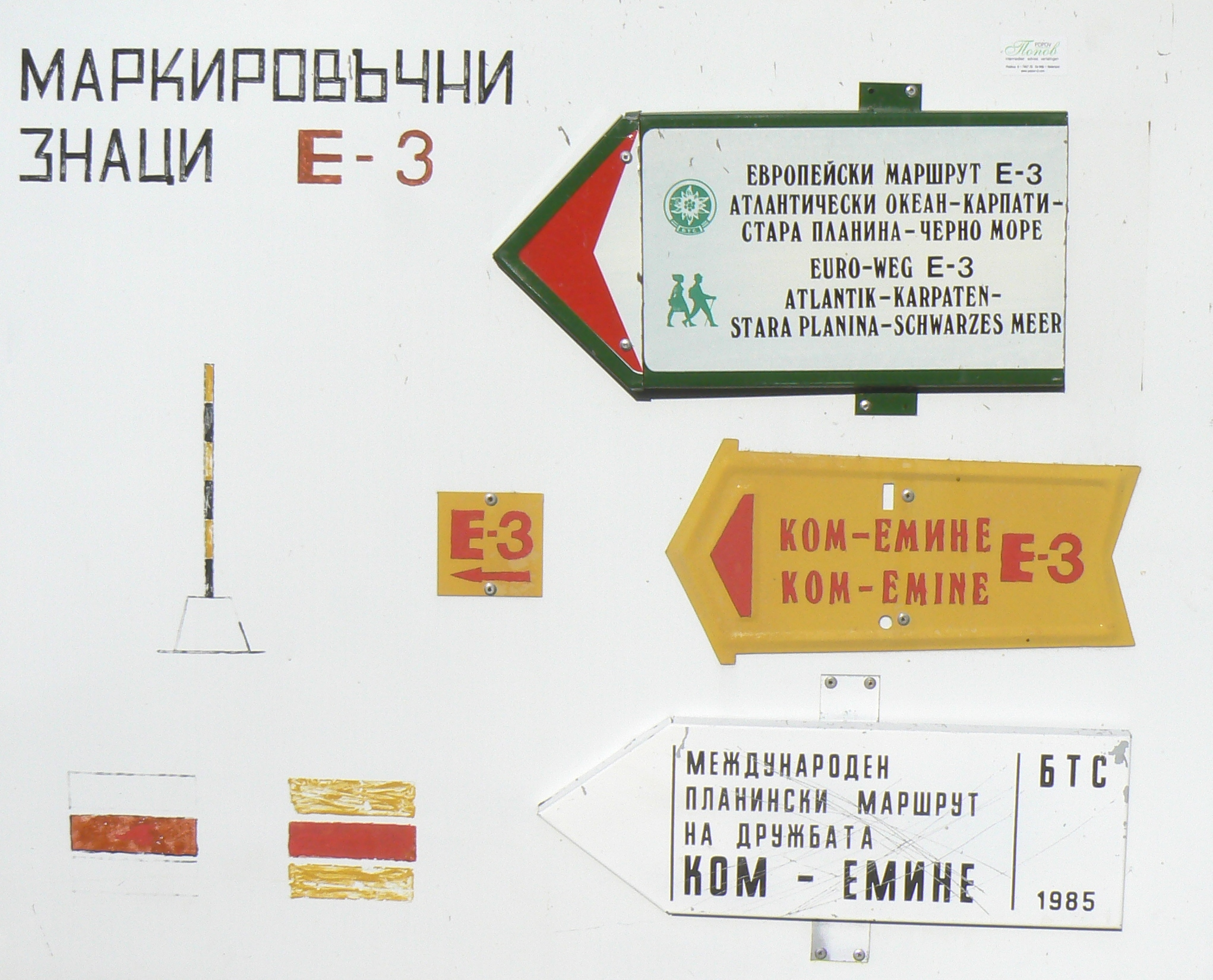 Route markers used on the Kom-Emine trail, the Bulgarian part of the European walking route E-3